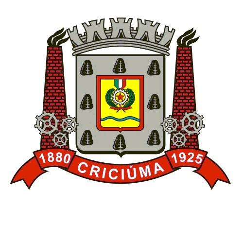 Coat of arms of the municipality of Criciúma - SC - Brazil